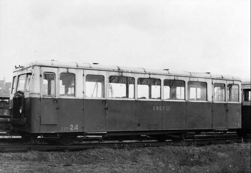 Railbus De Dion-Bouton ZZ 24 of Blanc - Argent Railway (ex Tw of Ain) in Romorantin Station.